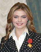 Alina Kabaeva decorated with the Order of Merit for the Fatherland.